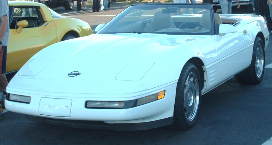 1984-1996 Chevrolet Corvette photographed in Montreal, Quebec, Canada at Gibeau Orange Julep.